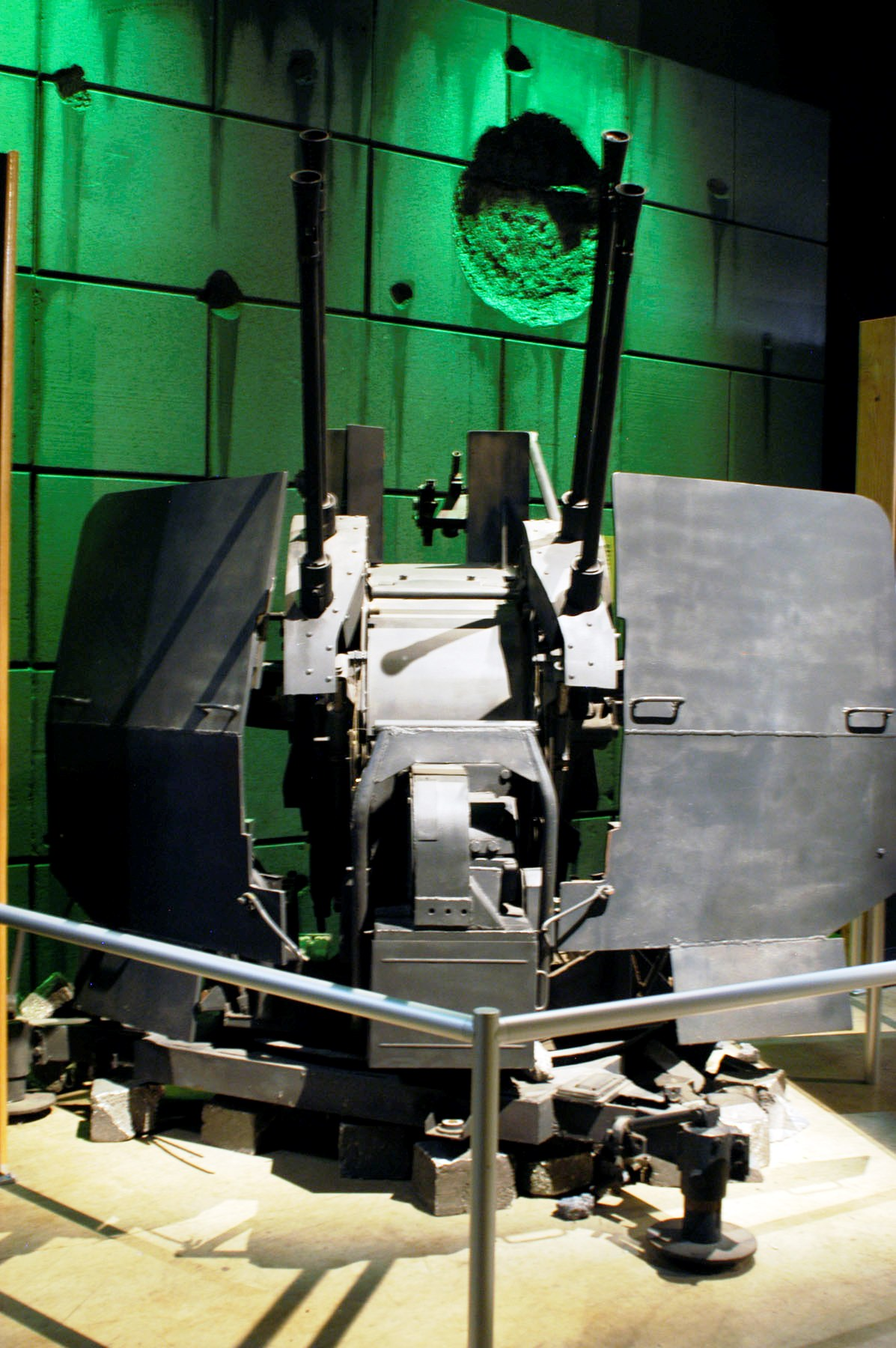 Flakvierling 38 20mm Antiaircraft Gun in the Air Power Gallery at the National Museum of the U.S. Air Force.